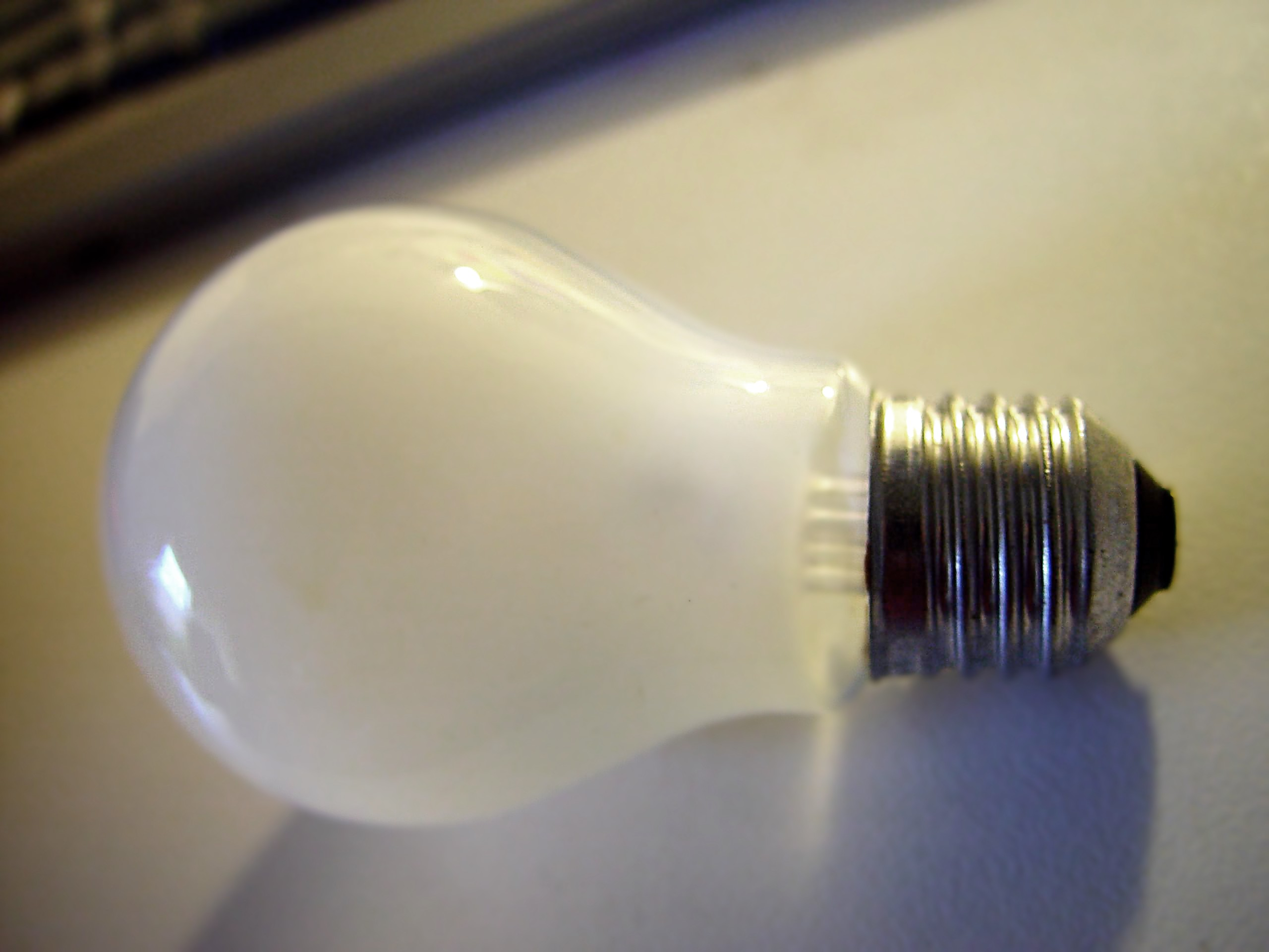 Image title: Frosted light globe screw fitting Image from Public domain images website